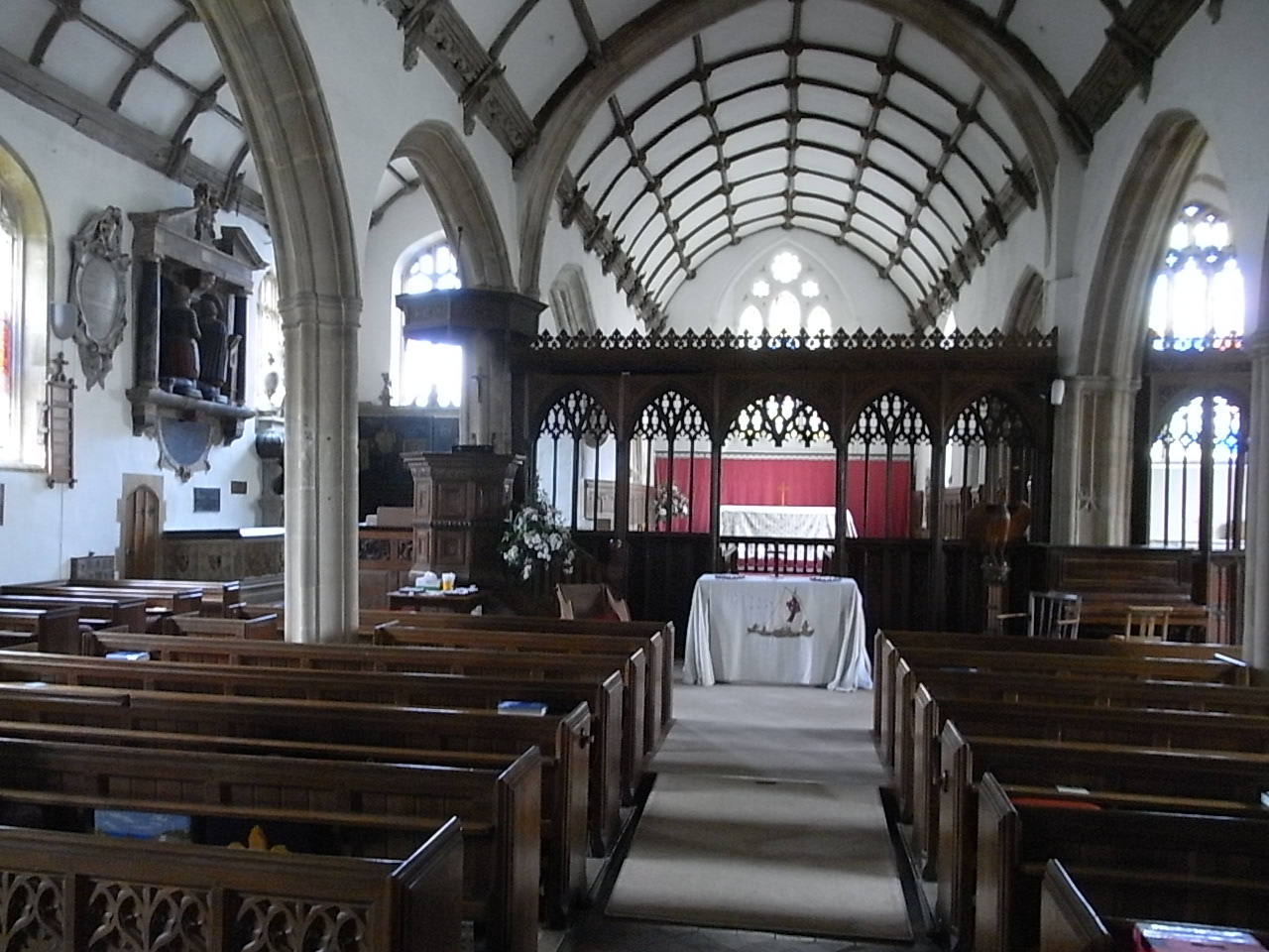 St Decuman's Church, Watchet, Somerset. View towards chancel in east; to left is the north aisle Wyndham Chapel, containing monuments to that family